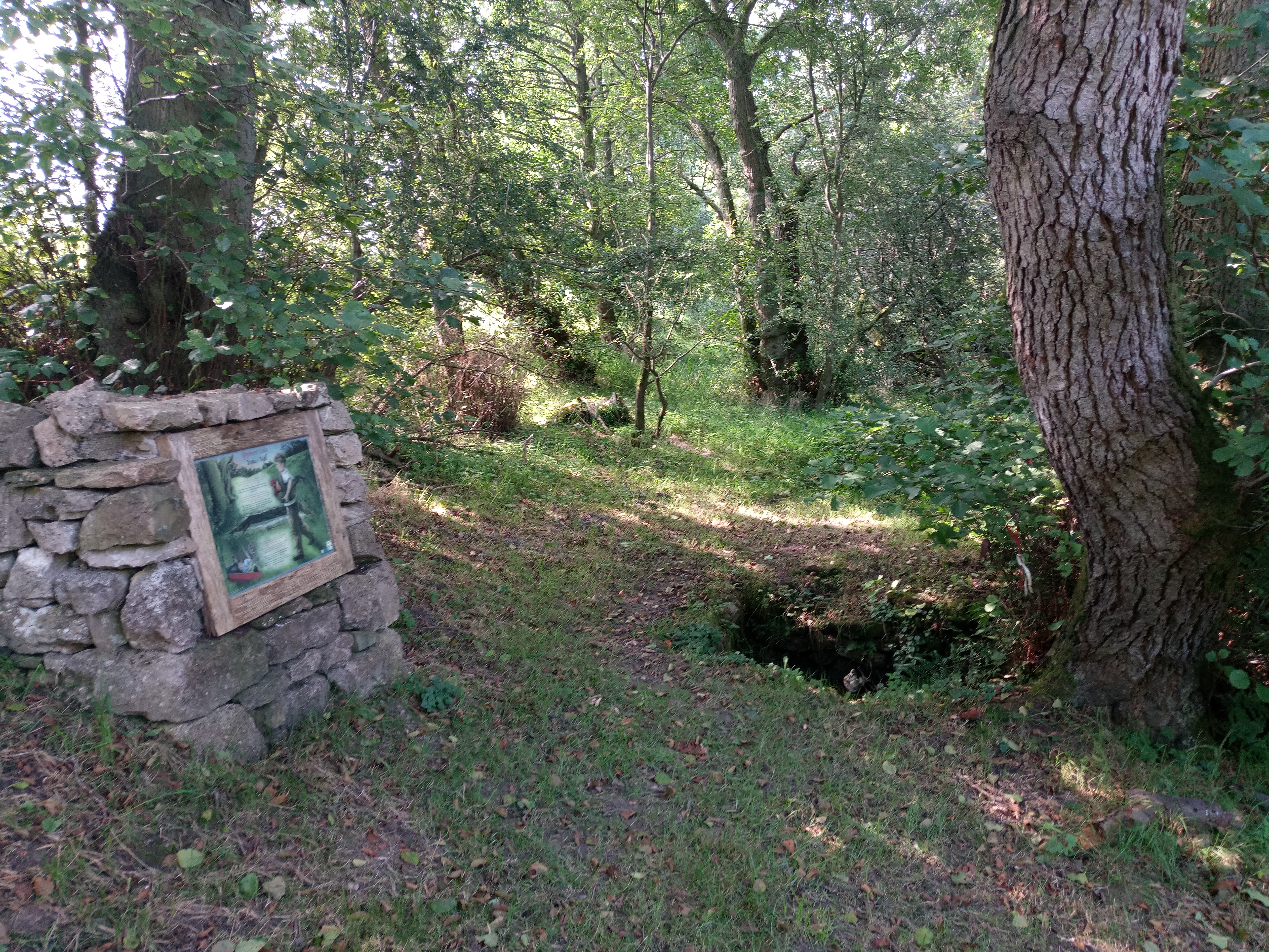 St. Tecla's Well, Llandegla, Wales, United Kingdom